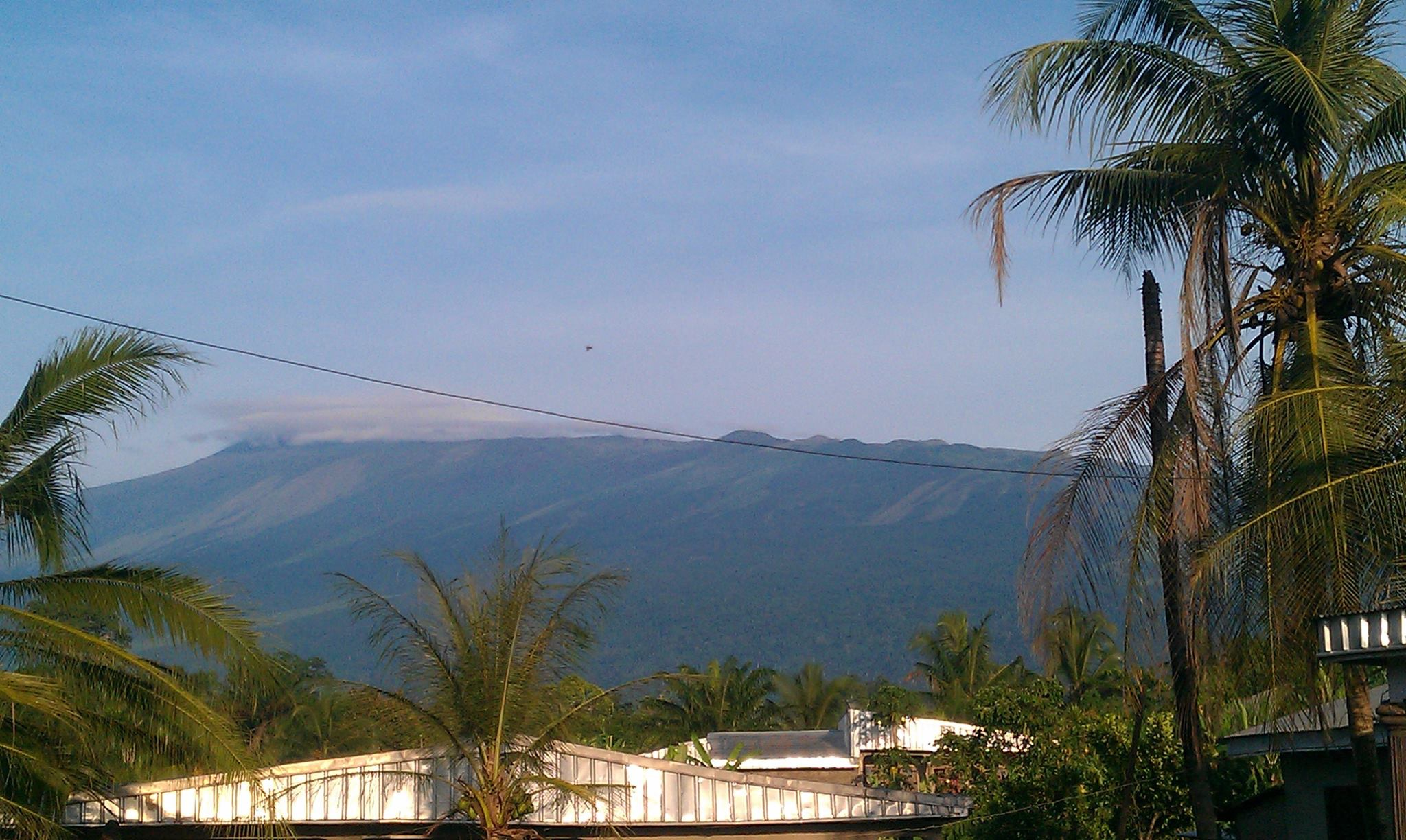 A view from Muyuka